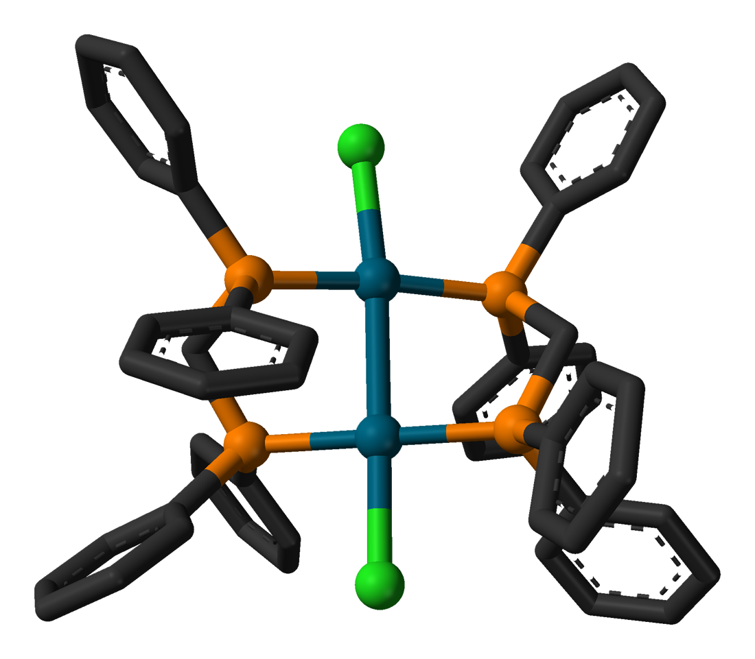 Ball-and-stick model of the [PdCl2(dppm)] complex, as found in the crystal structure. X-ray crystallographic data from Inorg. Chim. Acta (2002) 327, 179-187. Model constructed in CrystalMaker 8.1. Image generated in Accelrys DS Visualizer.